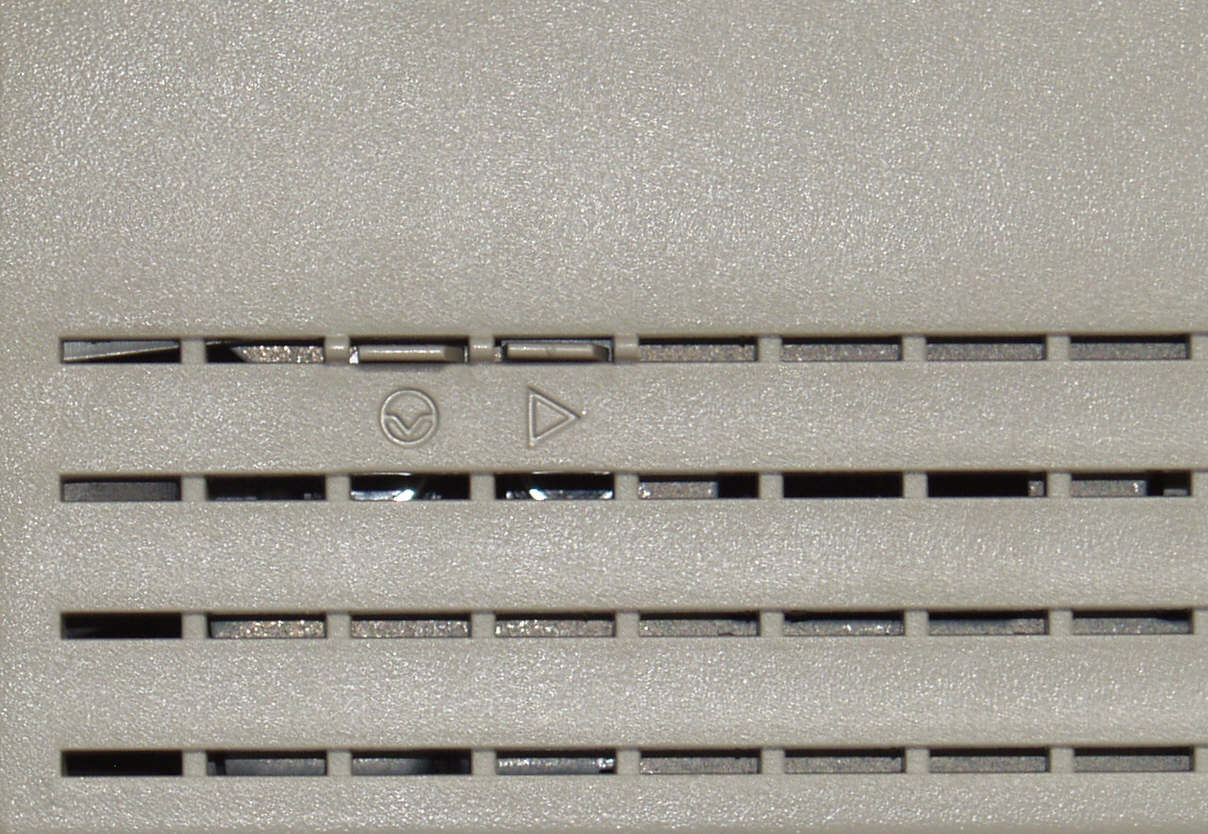 The interrupt and reset switches on the lower left hand side of an Apple Macintosh Classic II computer.